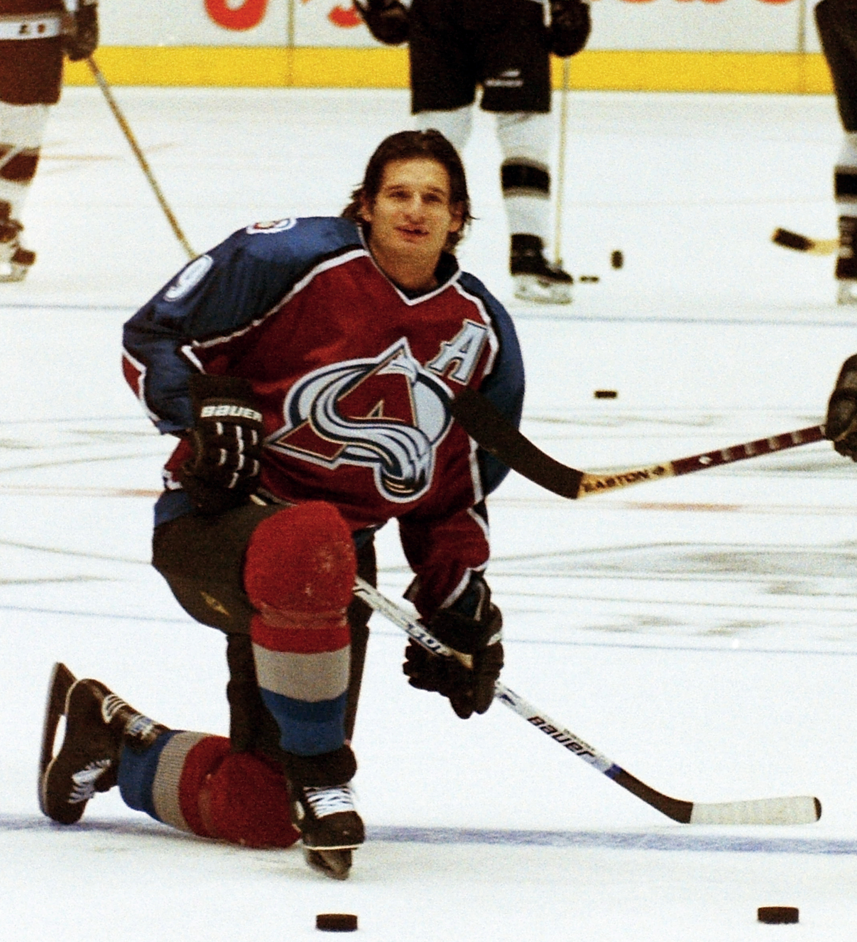 Ricci as a member of the Avalanche.